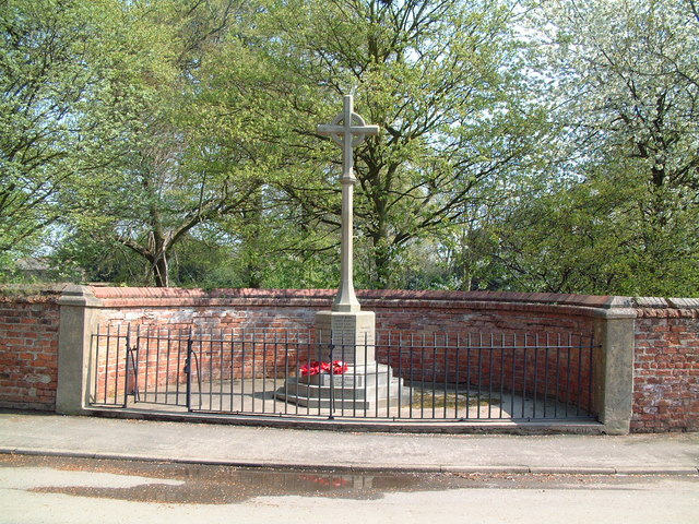 Eastoft War Memorial. The land behind the wall is part of Eastoft Hall.